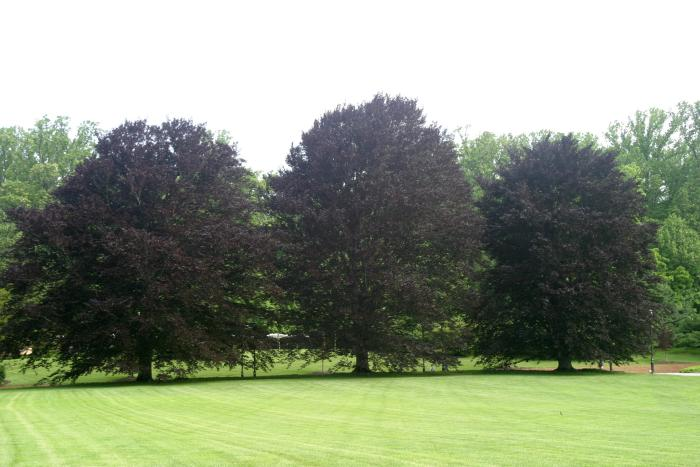 Fagus sylvatica 'Atropurpurea' (Purple European Beech). These trees are at Longwood Gardens.